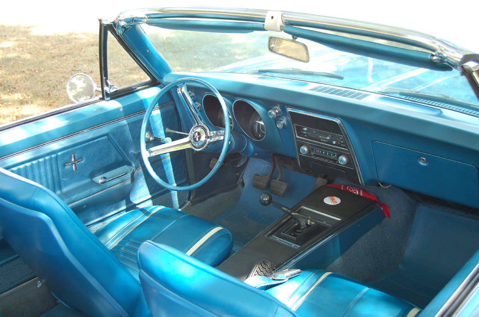 Taken during the 2007 "Red Barns Spectacular" car show at the Gilmore Car Museum, Hickory Corners, Michigan.